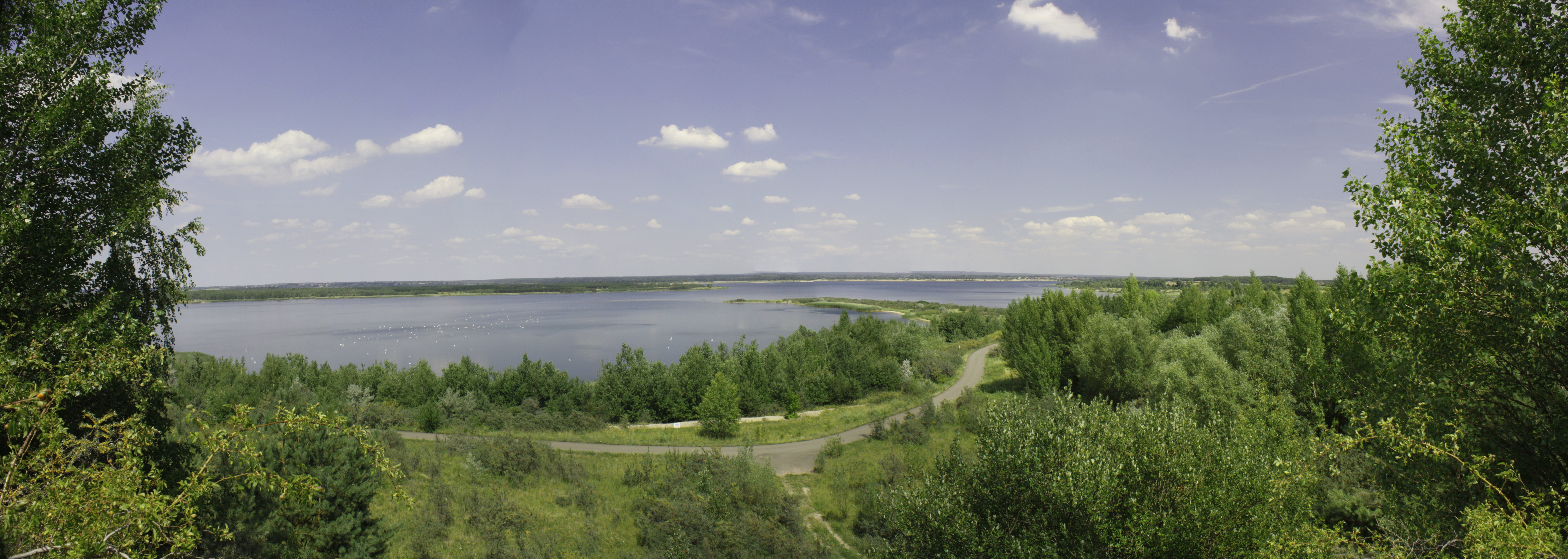 Seelhausener lake, seen from the village Sausedlitz.